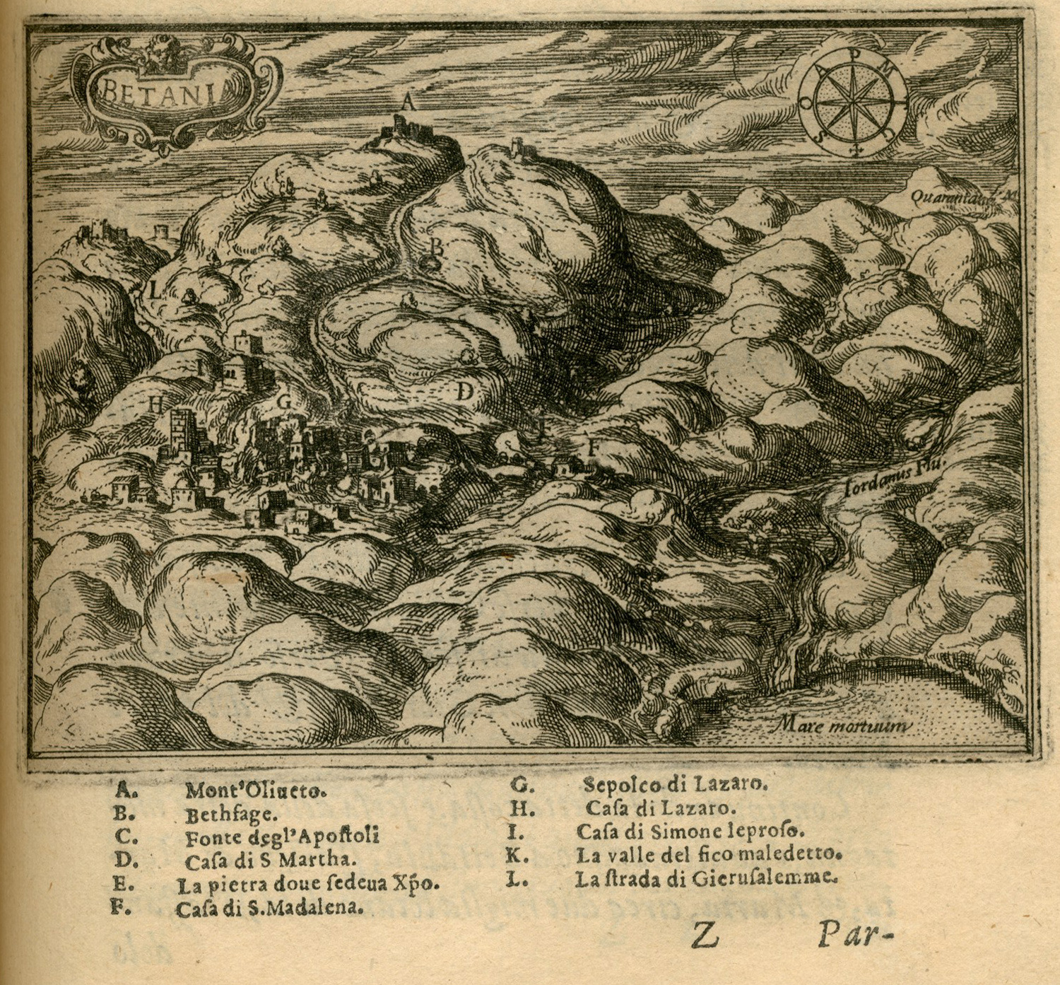 Jean Zuallart. Il devotissimo viaggio di Gerusalemme fatto, & descritto in sei libri dal Sig. Giovanni Zuallardo, Cavaliero del Santiss Sepolcro di N.S. l'anno 1586, Rome, F. Zanetti & Gia Ruffinelli, MDLXXXVII (1587) from p. 177